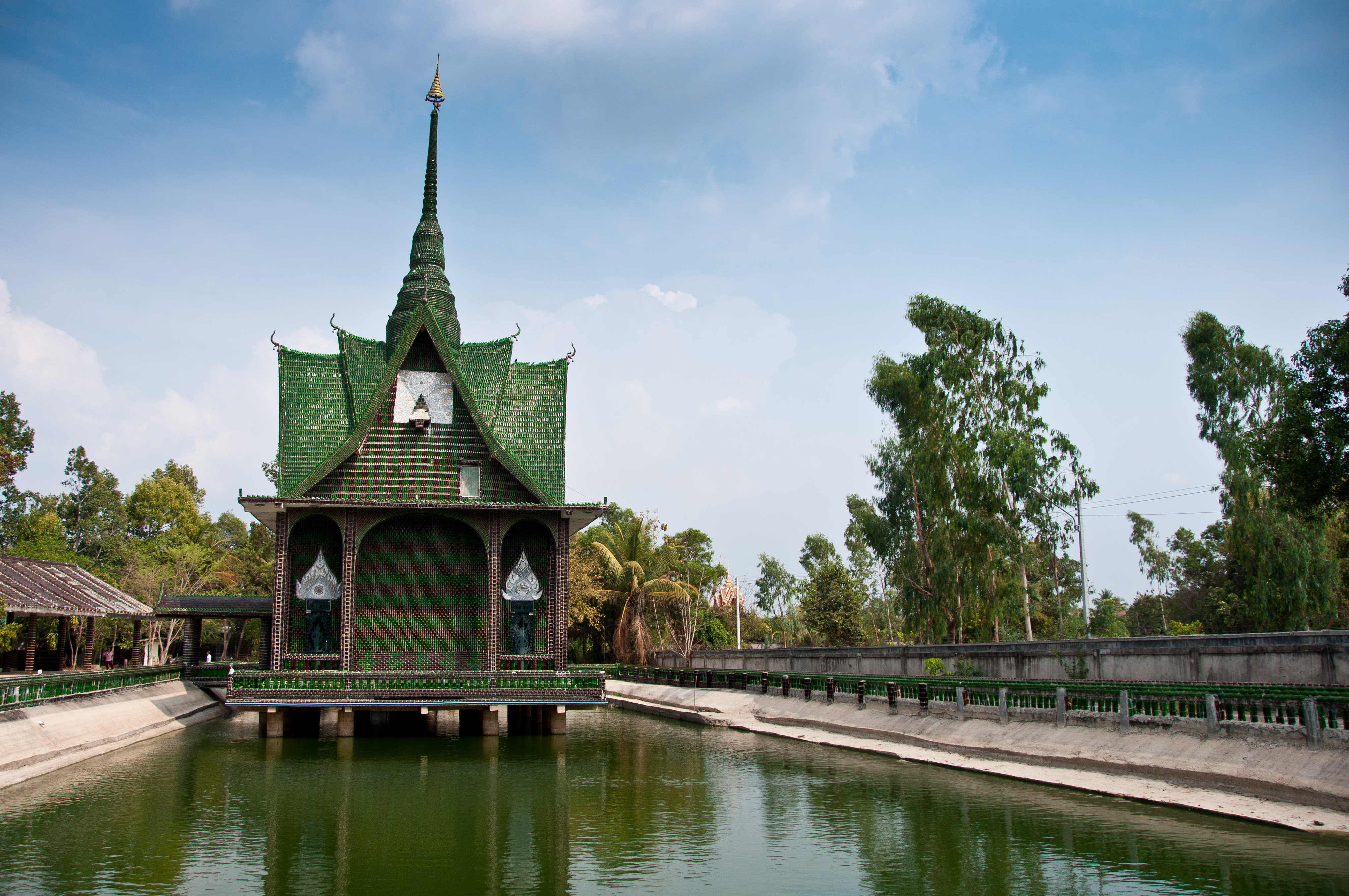 The main building at Wat Pa Maha Chedio Kaew, more commonly know as "The Million Bottle Temple" or "Wat Lan Kuad" in Thai. This Buddhist temple about 300 miles from Bangkok is decorated with more than a million recycled bottles.